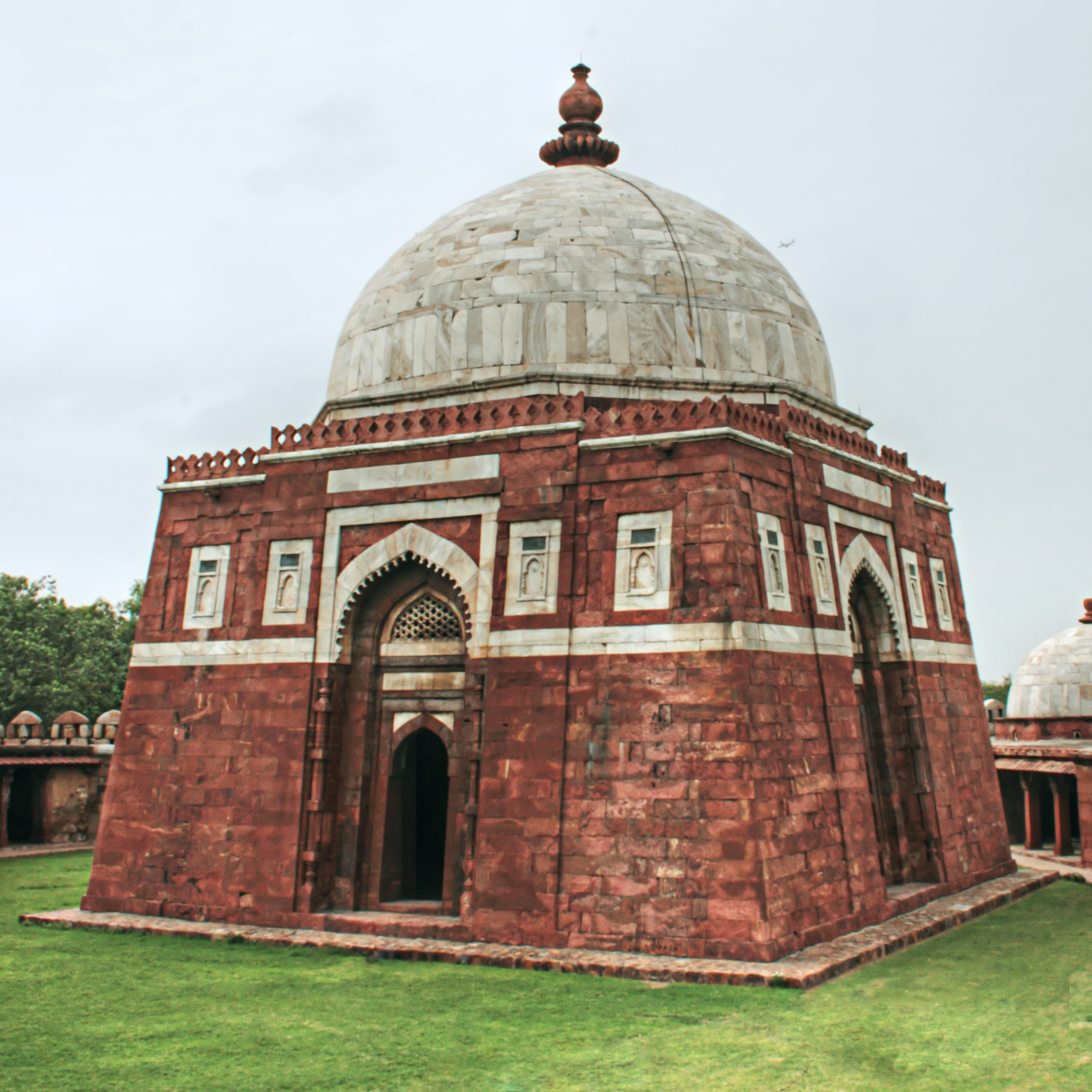 Tomb of Ghayasuddin Tughluq (Delhi, India) Built in the 14th century, located in South of Delhi, a few kms from the Qutub Minar. © 2008, All Rights Reserved by Shashwat Nagpal